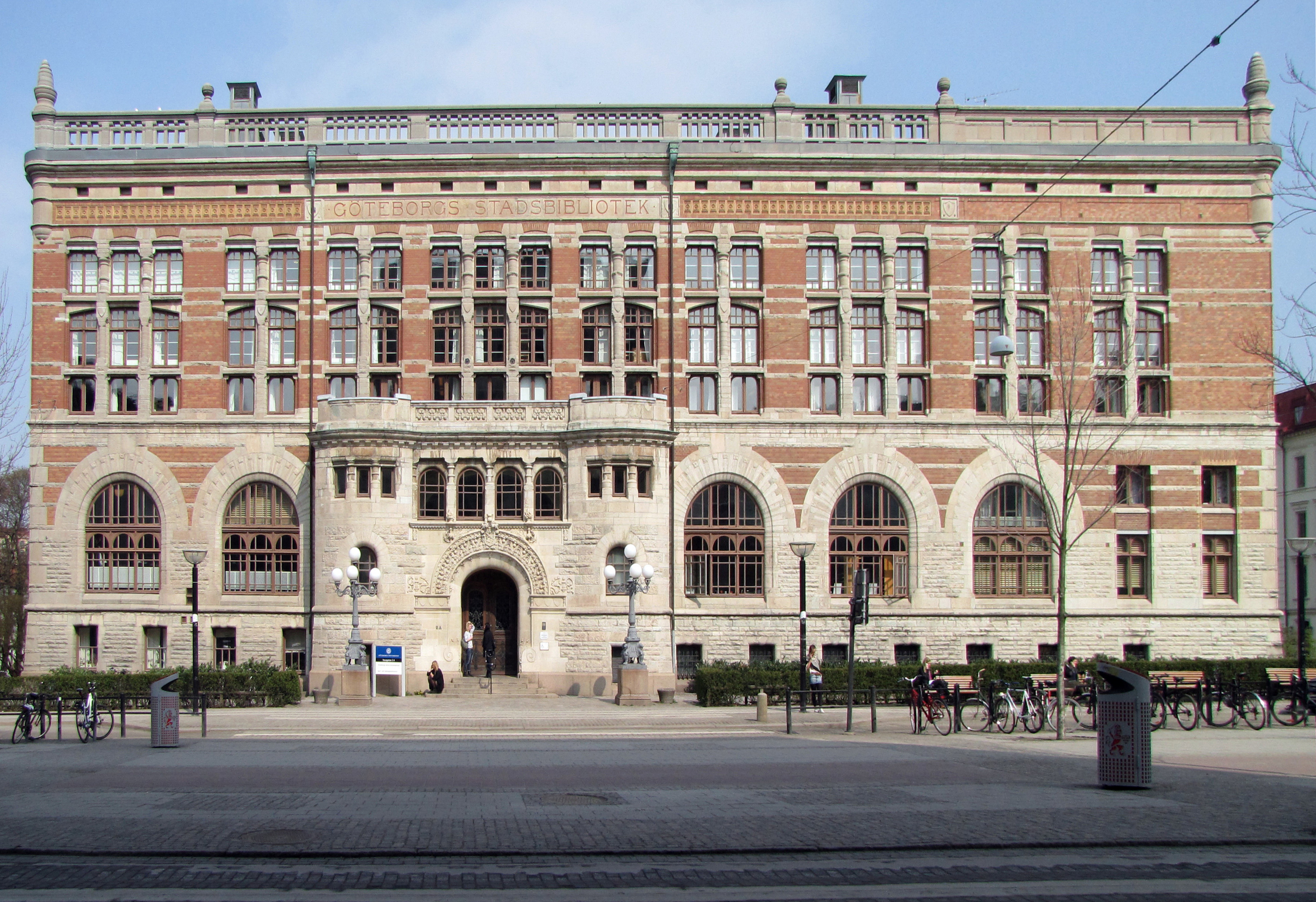 The former town library of Göteborg, built 1900, now one of the libraries of the University, called "Kurs- och tidningsbiblioteket", which means the course book and newspaper library. Front side is showed, facing south.